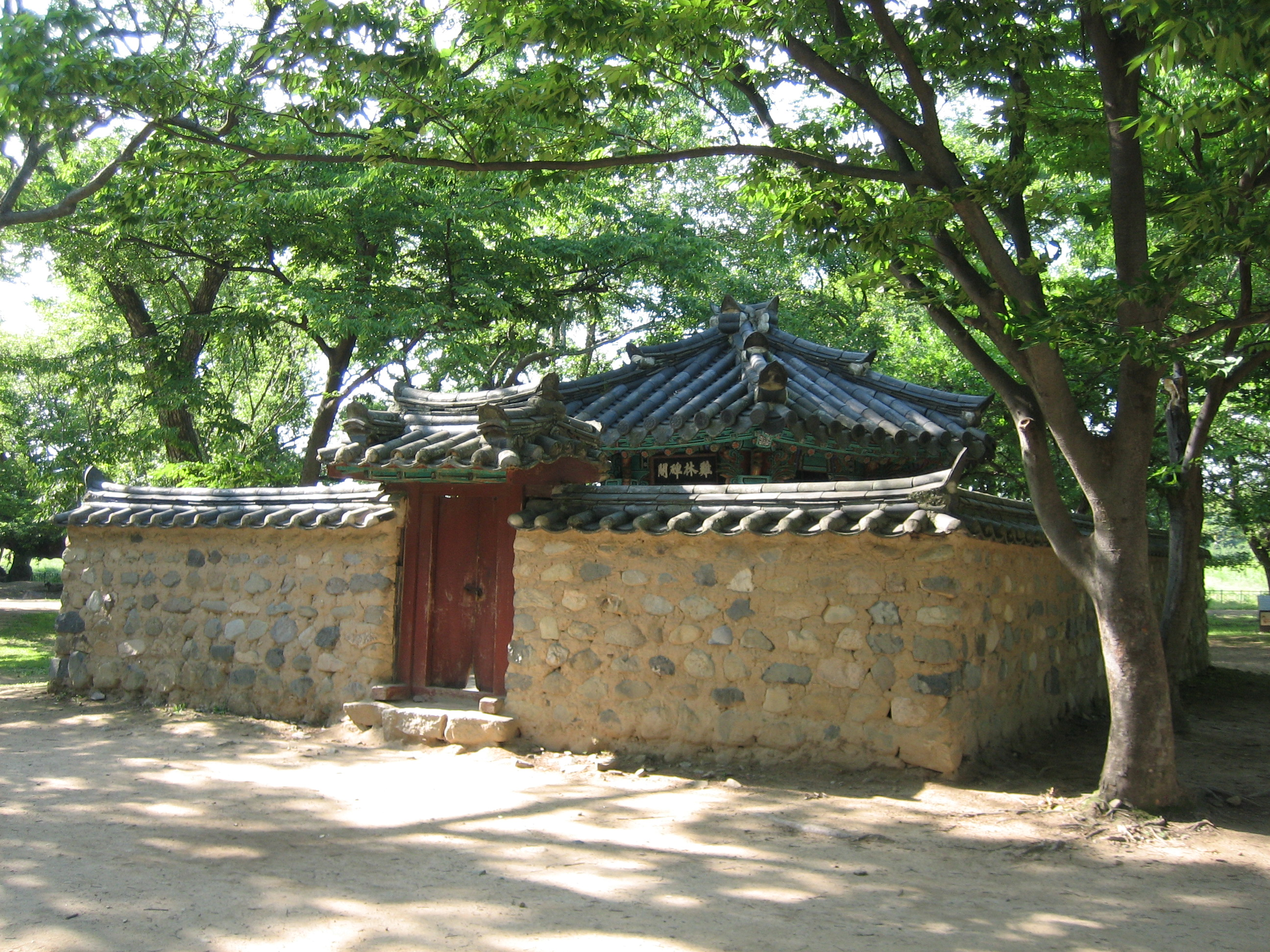 A view of Gyerim forest located in Gyeongju, North Gyeongsang province, South Korea